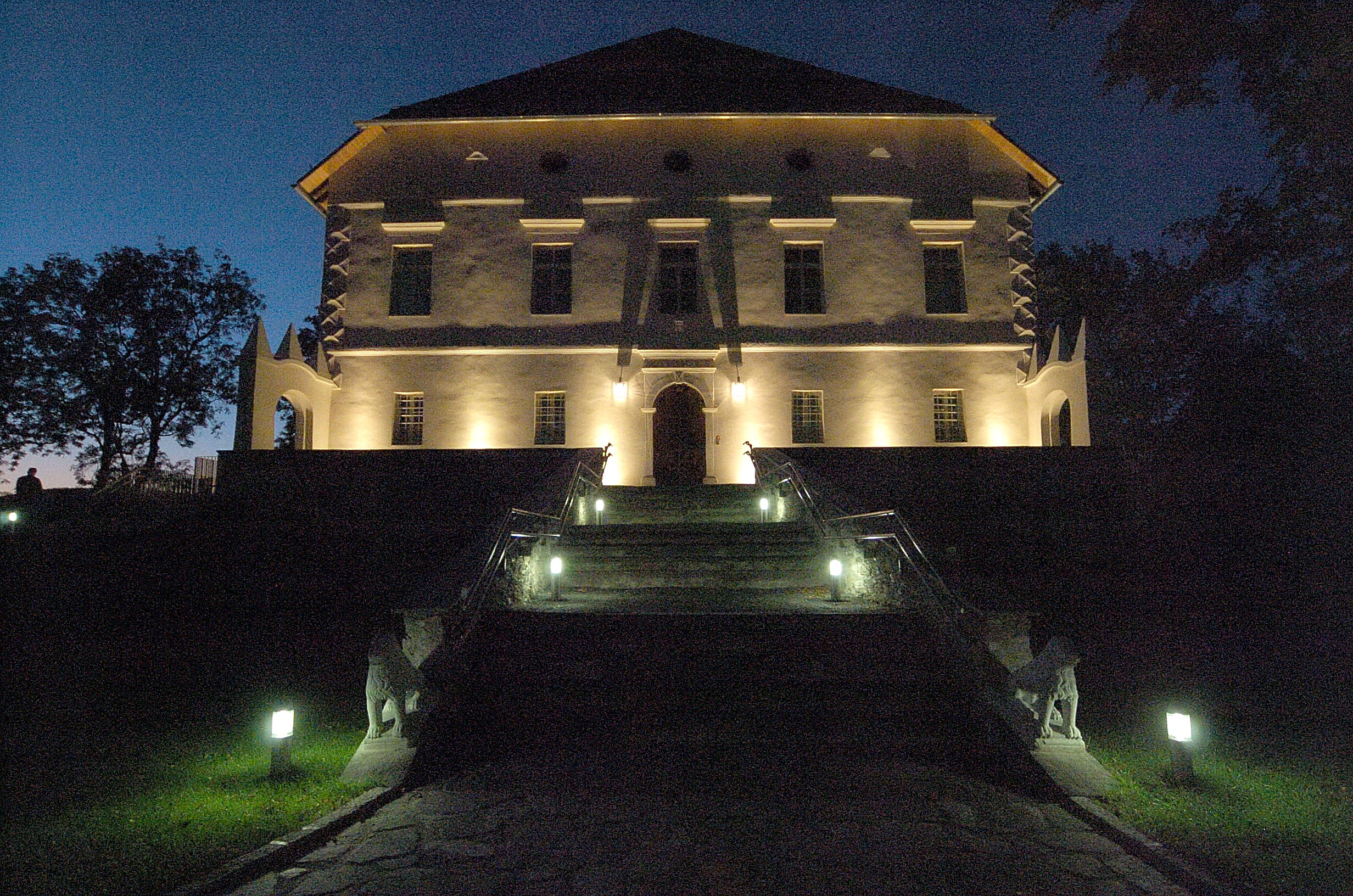 Castle Maria Loretto in the 12th district “Sankt Martin”, municipality Klagenfurt am Wörther See|Klagenfurt on the Lake Woerth , Carinthia / Austria / EU